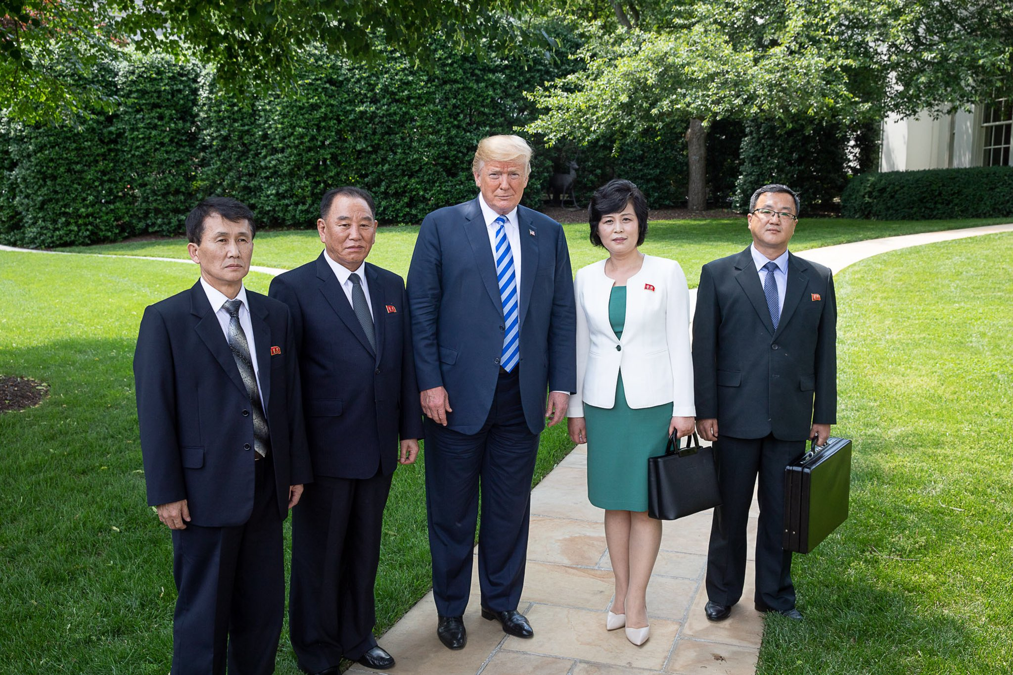 @POTUS @realDonaldTrump and @SecPompeo outside the Oval Office with the North Korea Delegation, prior to their departure...